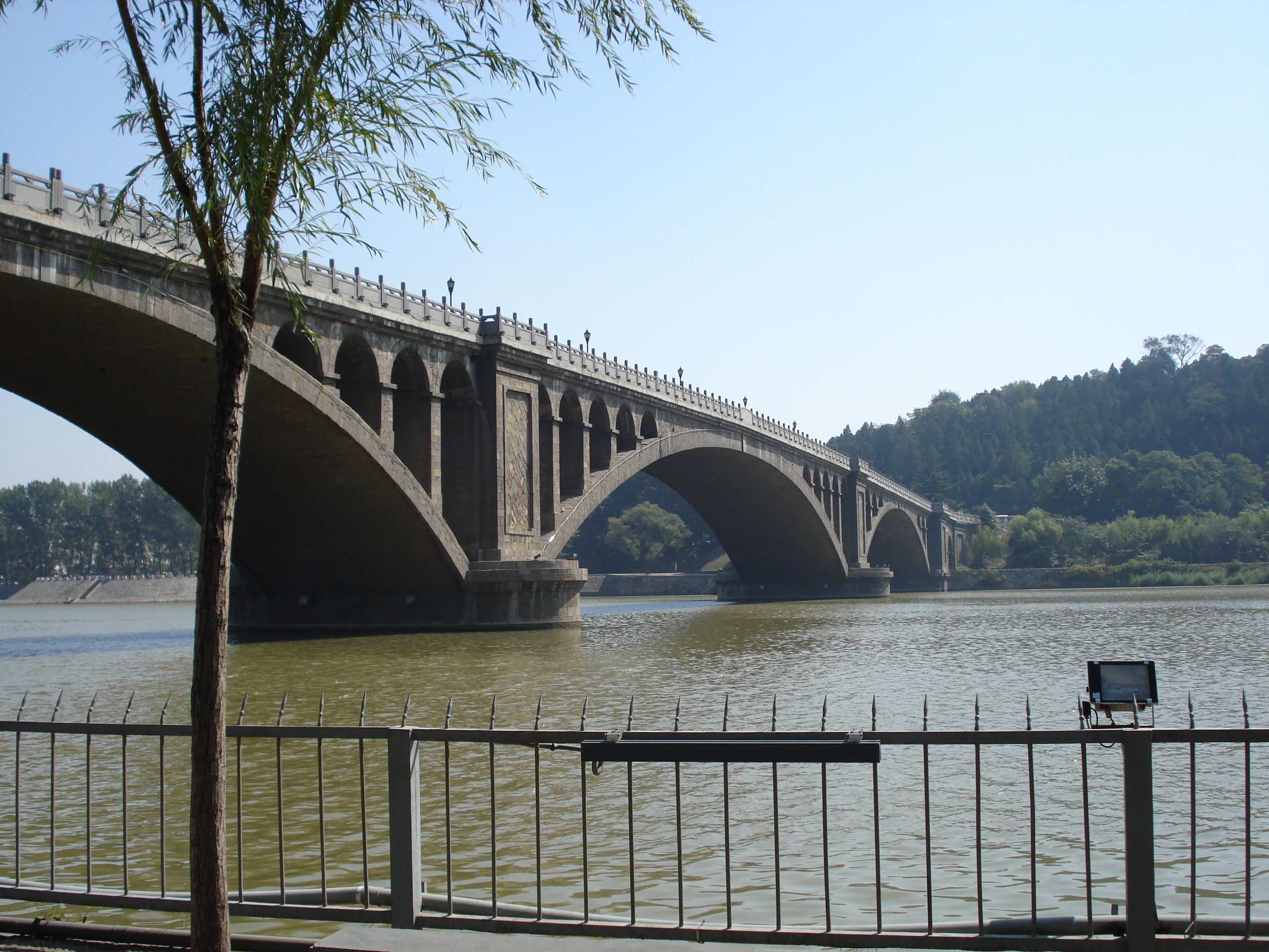 Luoyang, China - Manshui Bridge over Yi River ( Yi He) near Longmen Grottoes (Longmen Shiku)